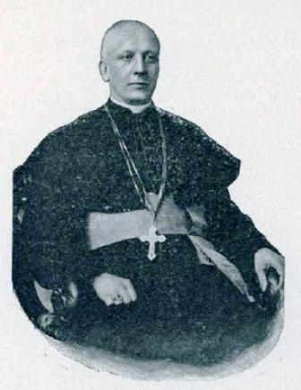 Andrej Jordan (1845-1905)